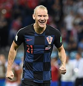 Vida at the 2018 World Cup